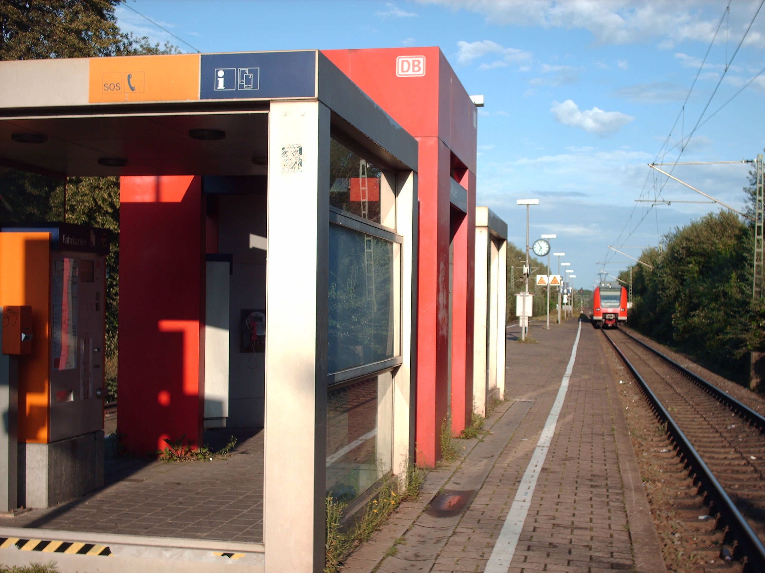 Welver station, Welver, Germany check usage